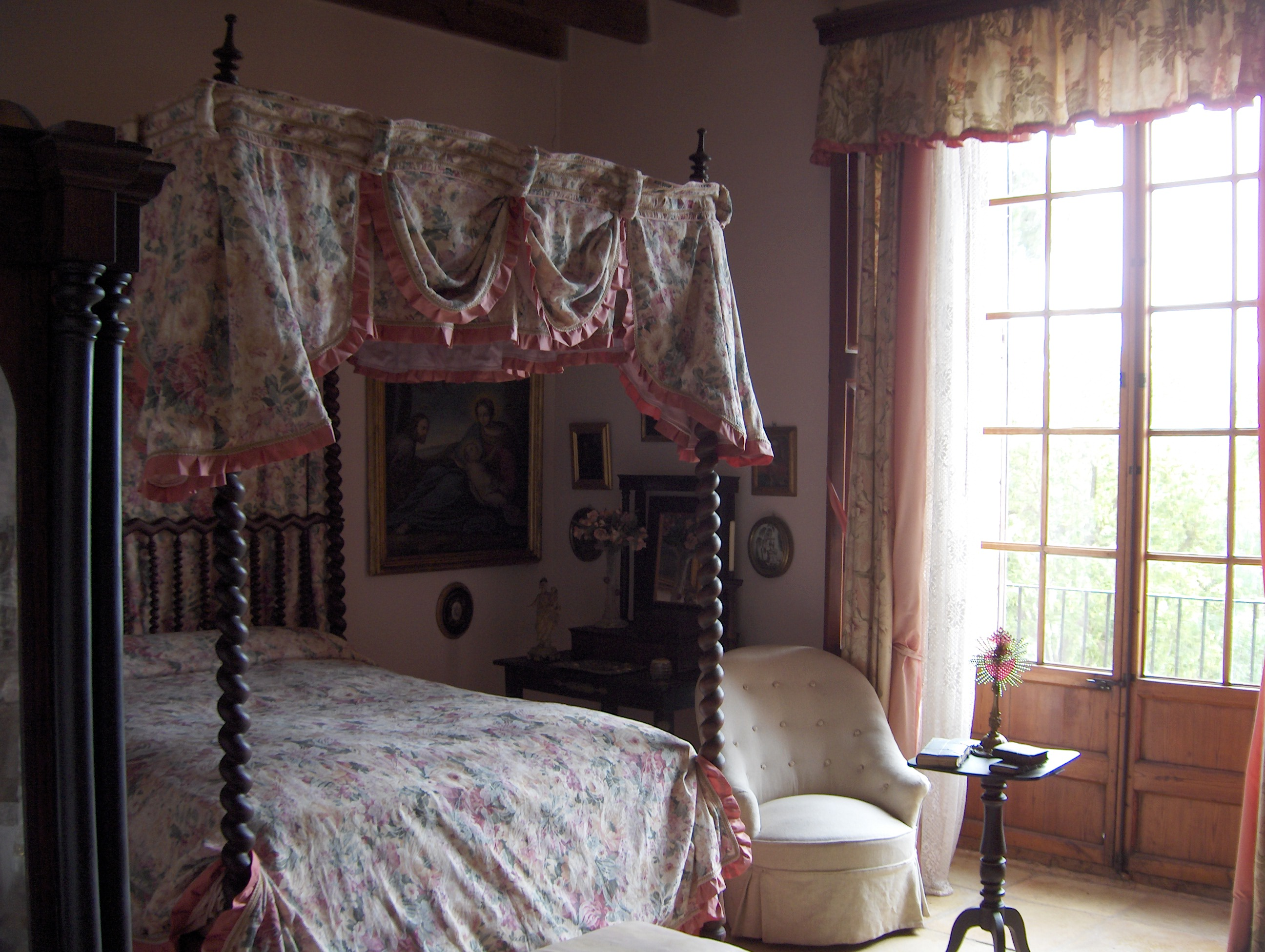 Els Calderers:Women's sleeping room